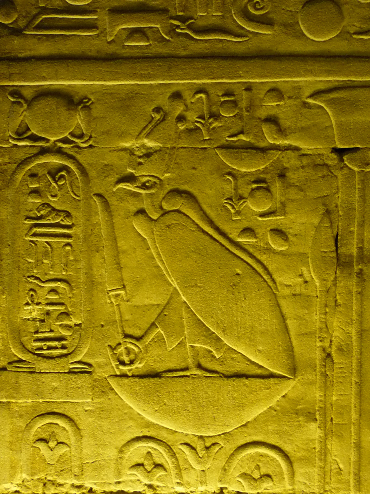 Wall relief of Nekhbet in the Cradle chapel, temple of Edfu, Egypt